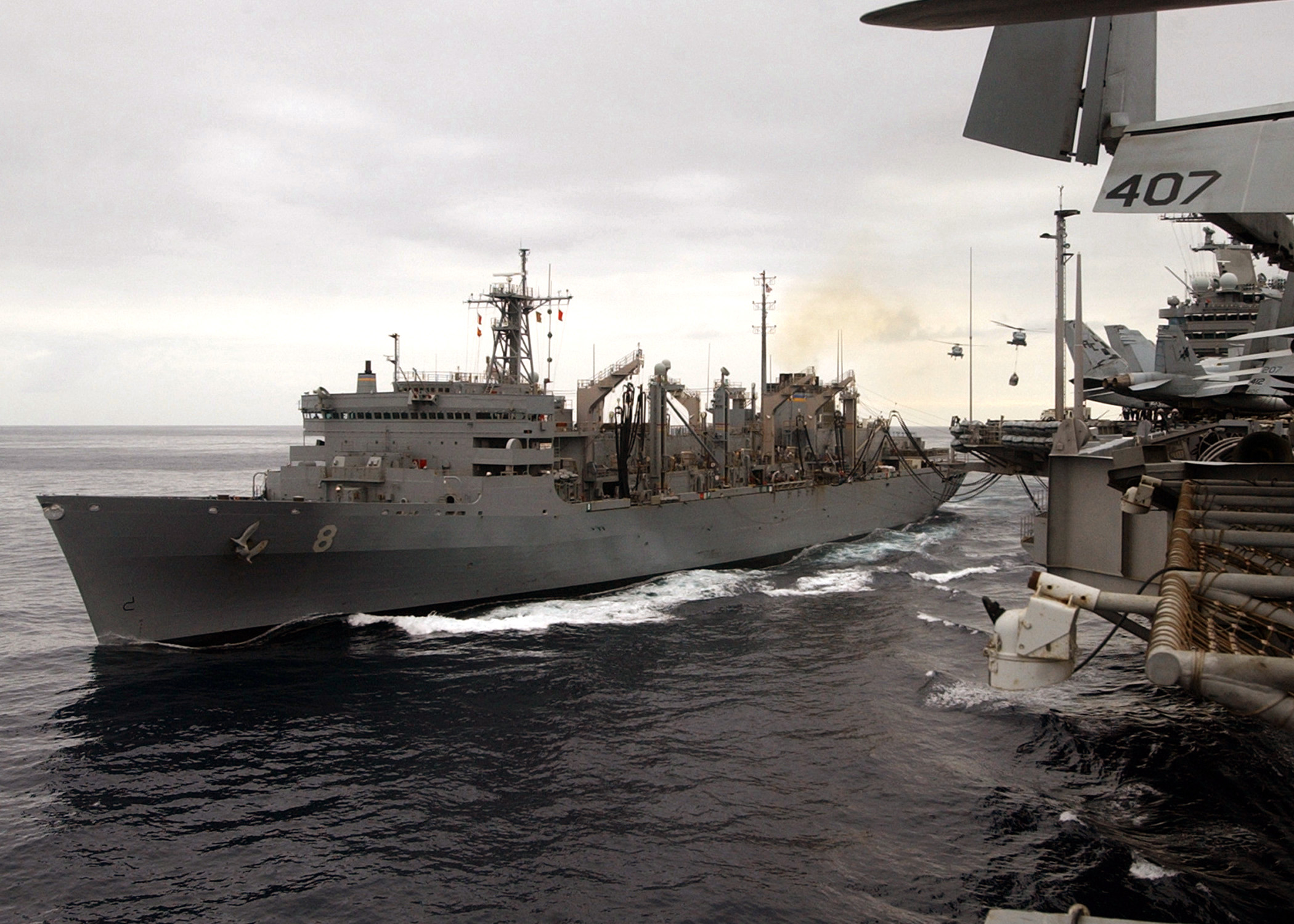 Atlantic Ocean (April 12, 2005) – The Military Sealift Command (MSC) fast-combat support ship USNS Arctic (T-AOE 8) conducts a replenishment at sea with the Nimitz-class aircraft carrier USS Harry S. Truman (CVN 75) in the Atlantic Ocean. The Harry S. Truman Carrier Strike Group recently turned over its responsibilities in the Persian Gulf to the Carl Vinson Carrier Strike Group, following nearly four months on station supporting Operation Iraqi Freedom (OIF). U.S. Navy photo by Photographer's Mate Airman Philip V. Morrill (RELEASED)